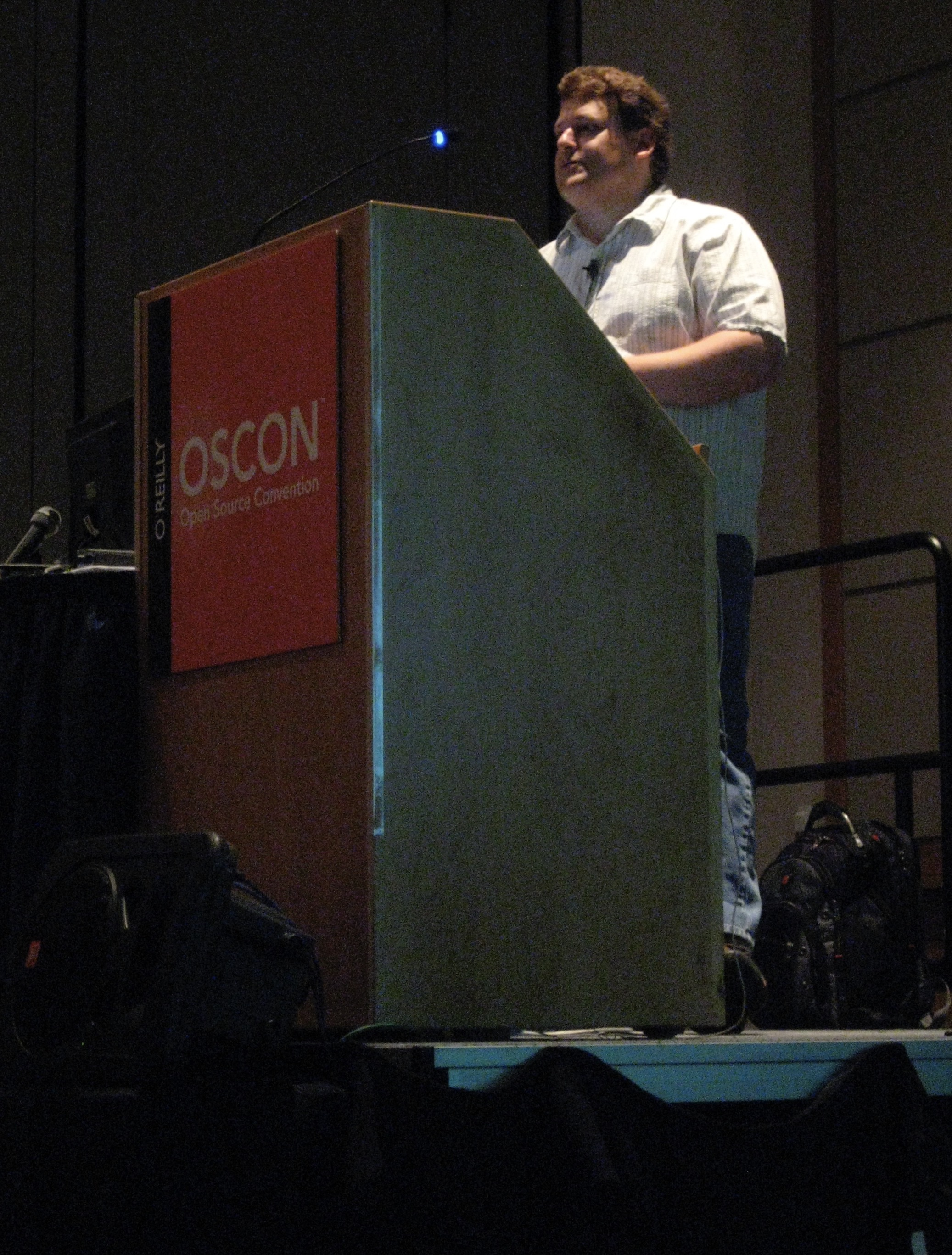 Roy Fielding speaking at OSCON 2008, computer scientist, founder and board member at the Apache Software Foundation.